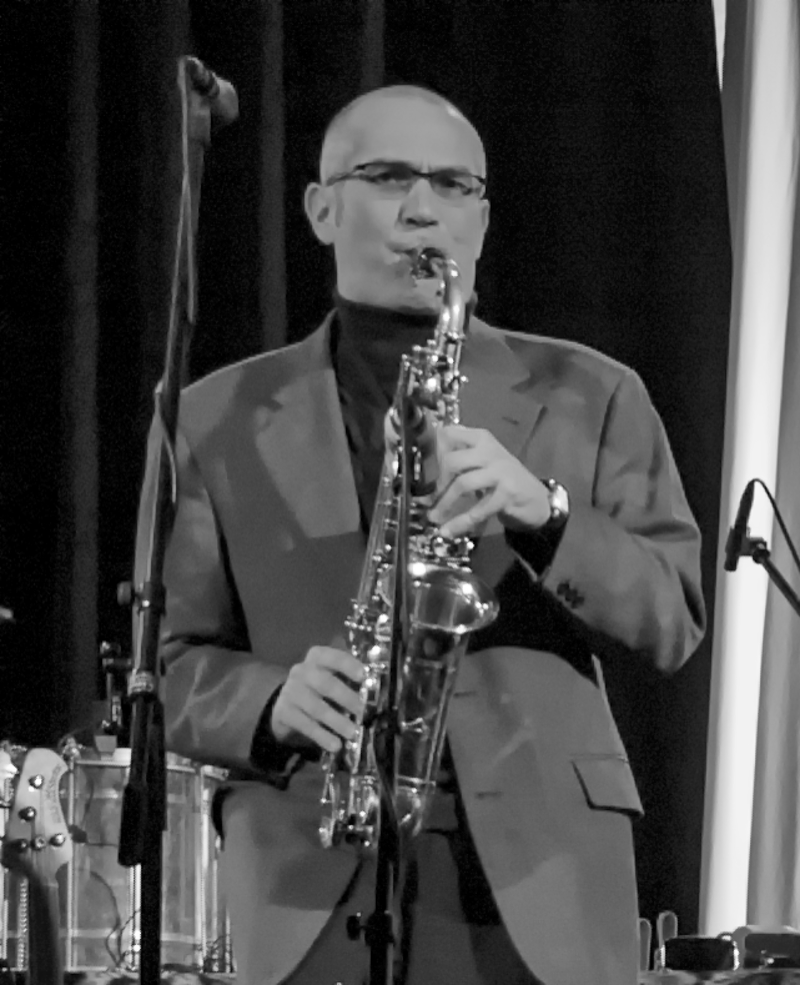 German musican Norbert Nagel